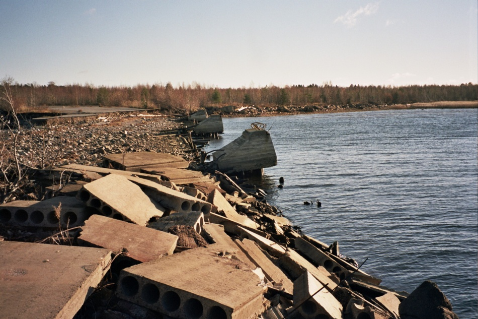 A photo from what once was the sawmill and shipyard area of Pateniemi in Finland.